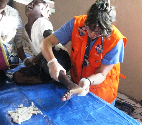 Joni Zweig (Didi Cirasmita) treating people injured in the Haiti earthquake